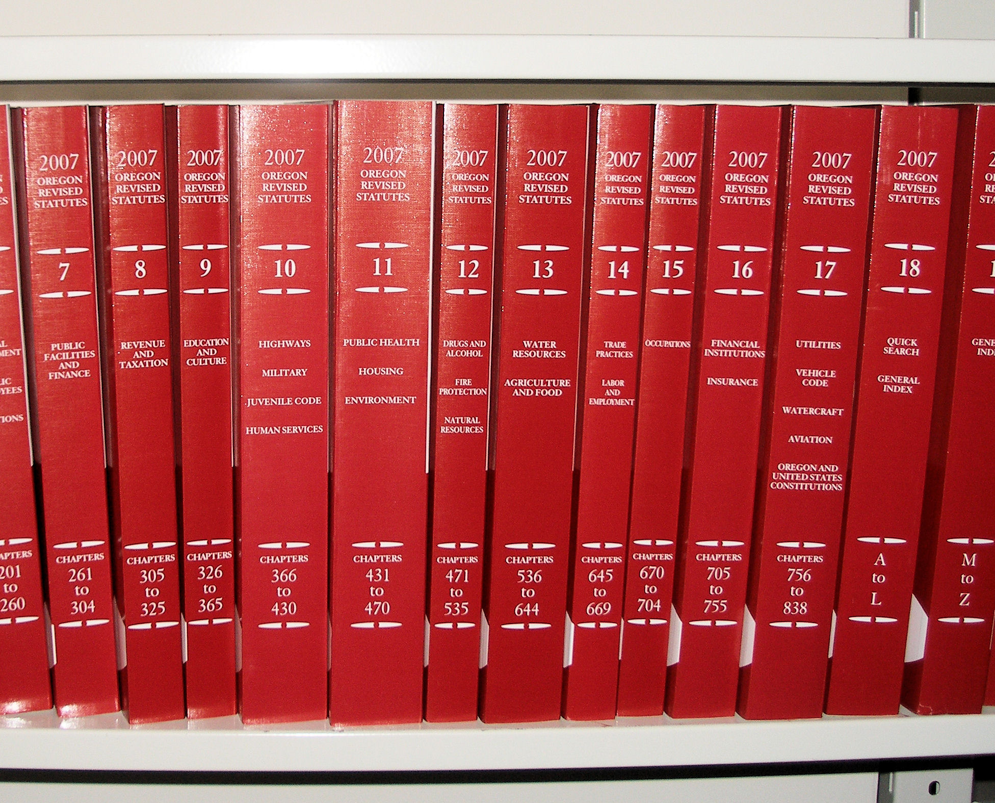 Volumes of the Oregon Revised Statutes on the shelf at the law library of the UC Berkeley School of Law.